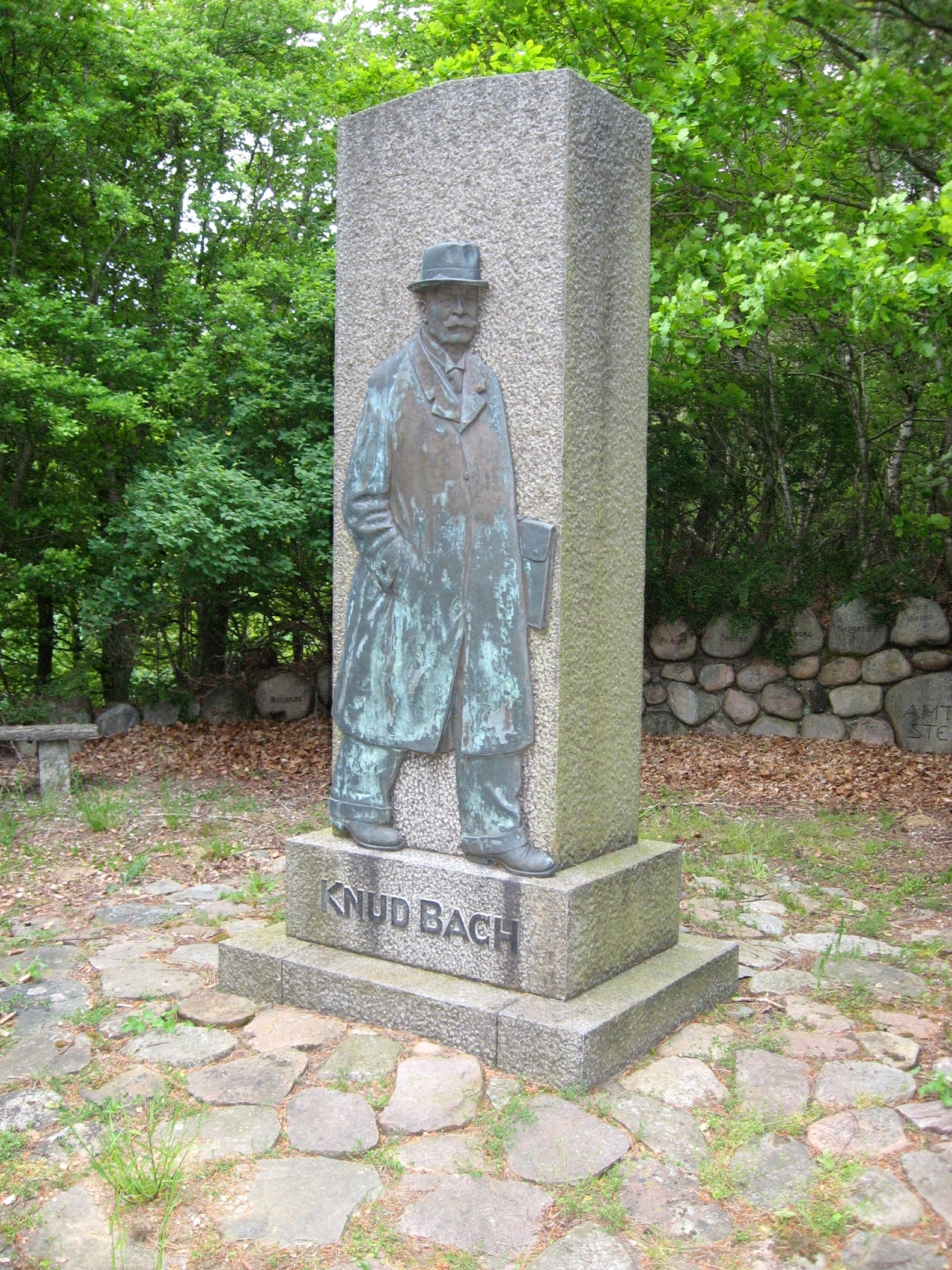 Monument for dane Knud Bach (1871-1948), founder of Landbrugernes Sammenslutning. Created by Danish sculptor Elias Ølsgaard. Placed at Rønge east of Bjerringbro in Jutland, Denmark.